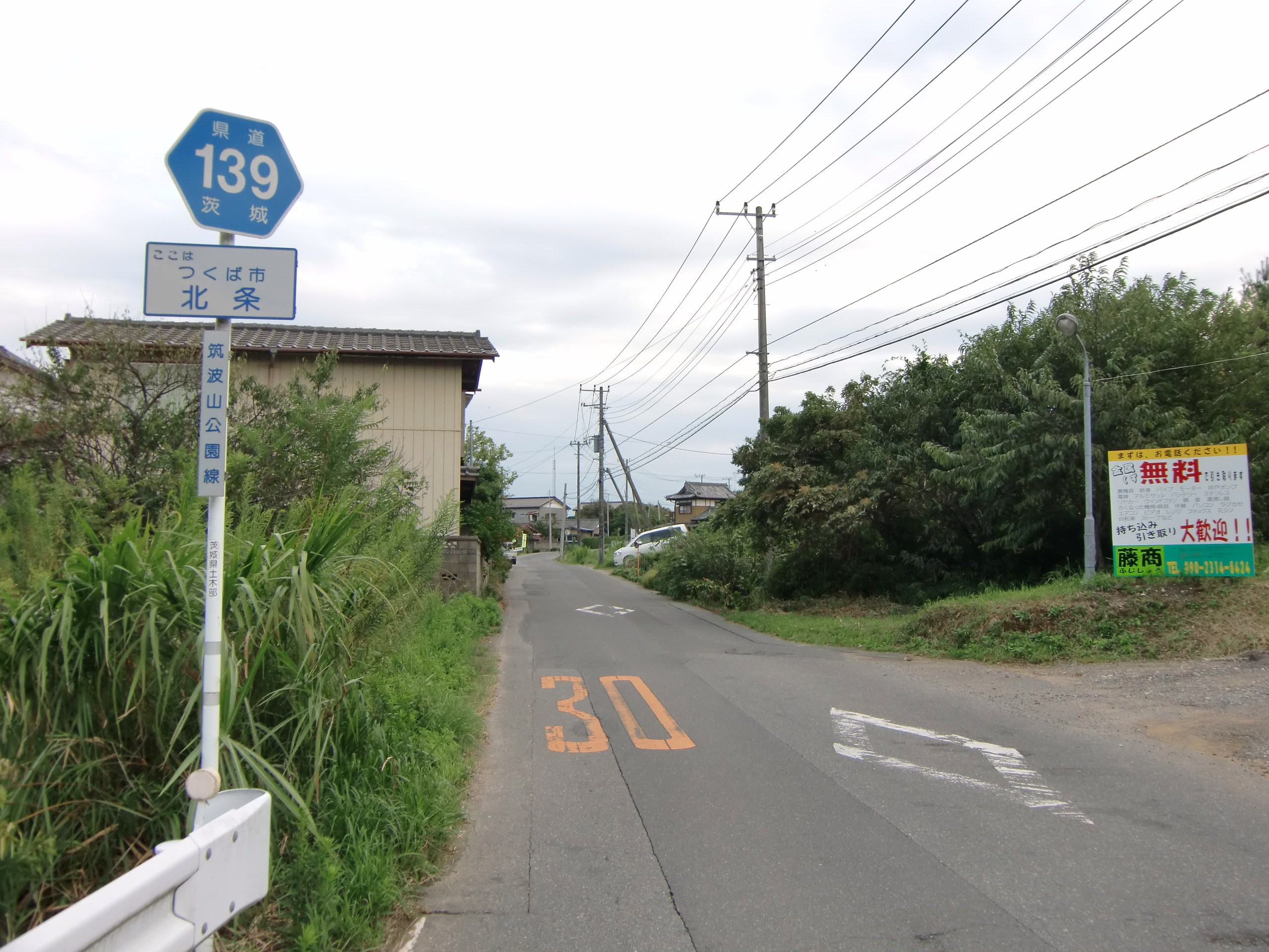 Ibaraki prefectural road 139 (Tsukubasan-Kōen line) in Hōjō, Tsukuba city, Ibaraki prefecture, Japan.